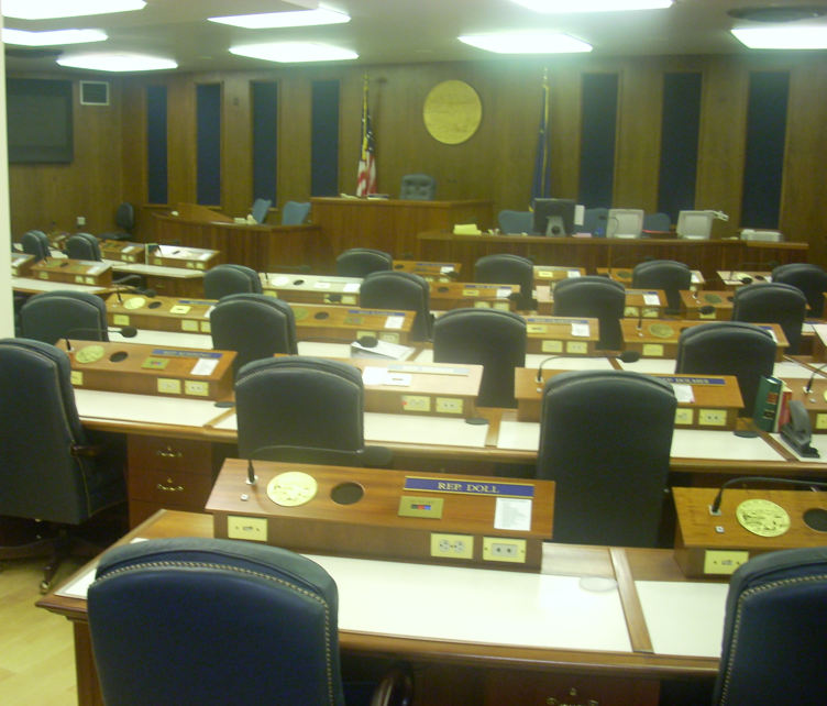 The chamber of the House of Representatives for the state of Alaska, in Juneau.